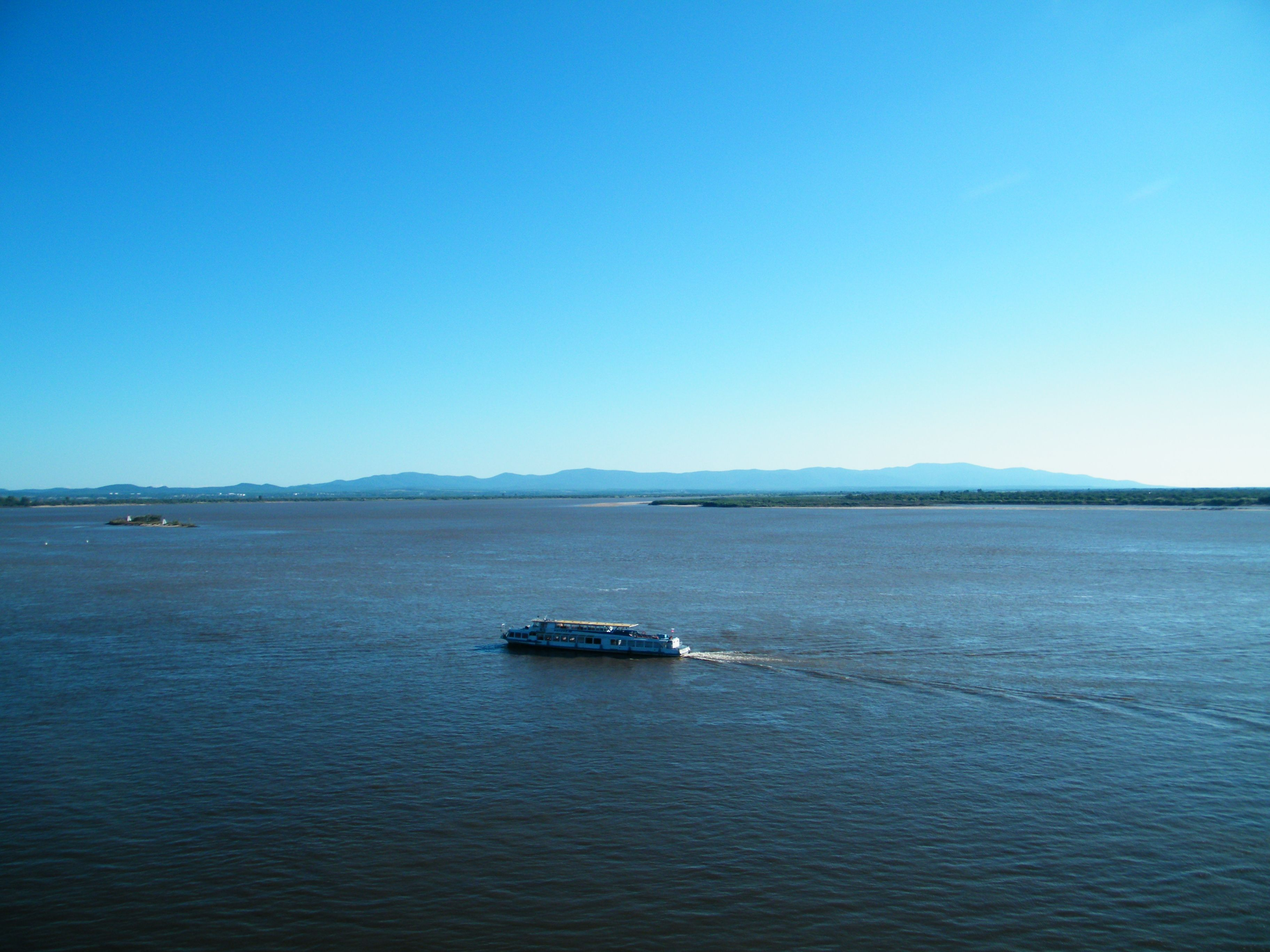 Amur River